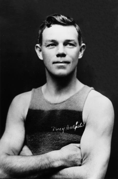 Darcy Hadfield was the last of New Zealand's successful professional scullers. He is shown here on 5 January 1922, the day that he defeated Dick Arnst on the Whanganui River. Hadfield won by six lengths in a time of 19 minutes 45 seconds for the 3¼ miles (5.2-kilometre) course. A crowd of some 10,000 witnessed the contest. Hadfield had won New Zealand's first Olympic rowing medal, a bronze in the single sculls, at the 1920 Antwerp Games about 16 months earlier.